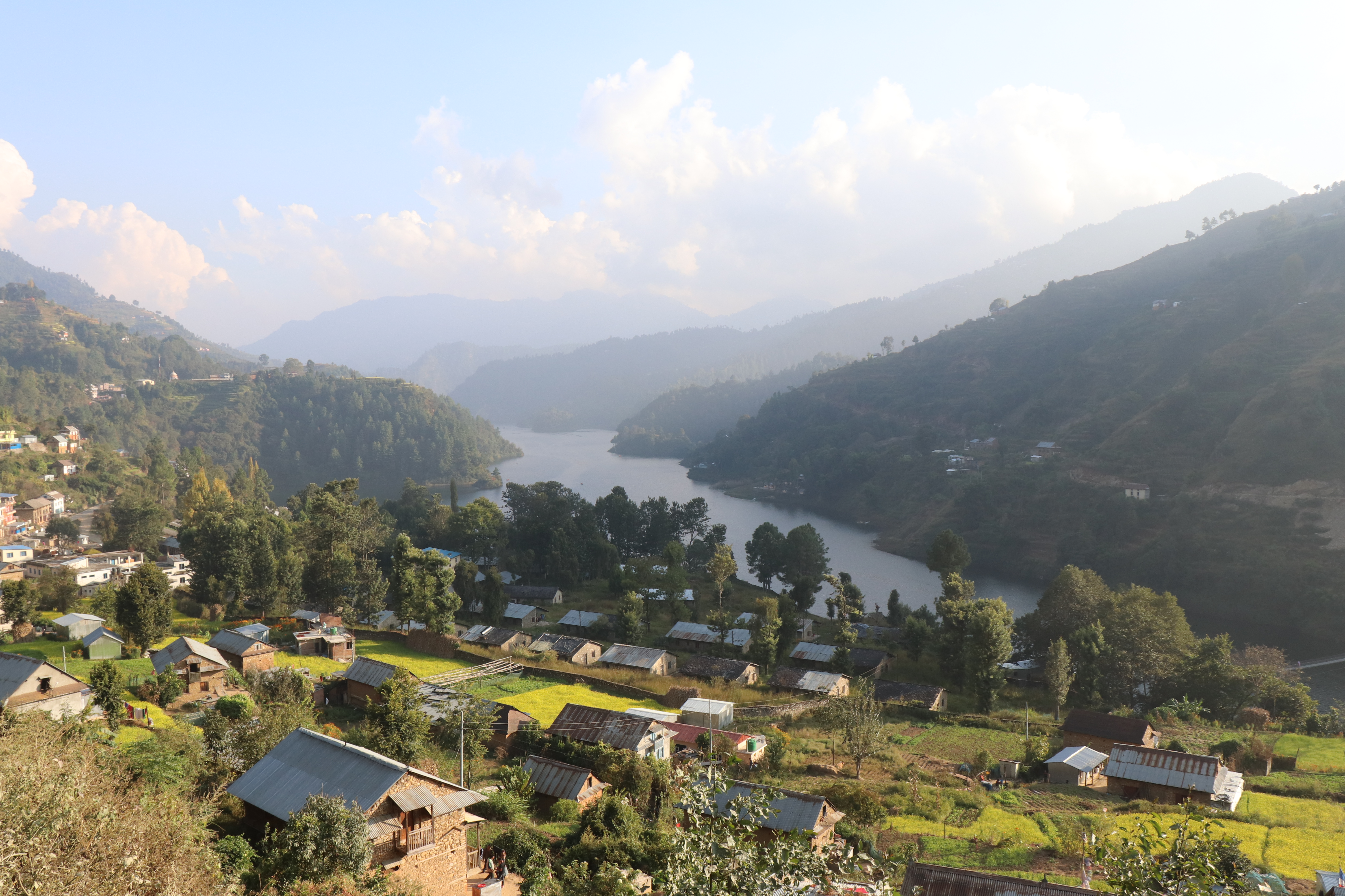 Indra Sarowar, Markhu, Kulekhani Nepal